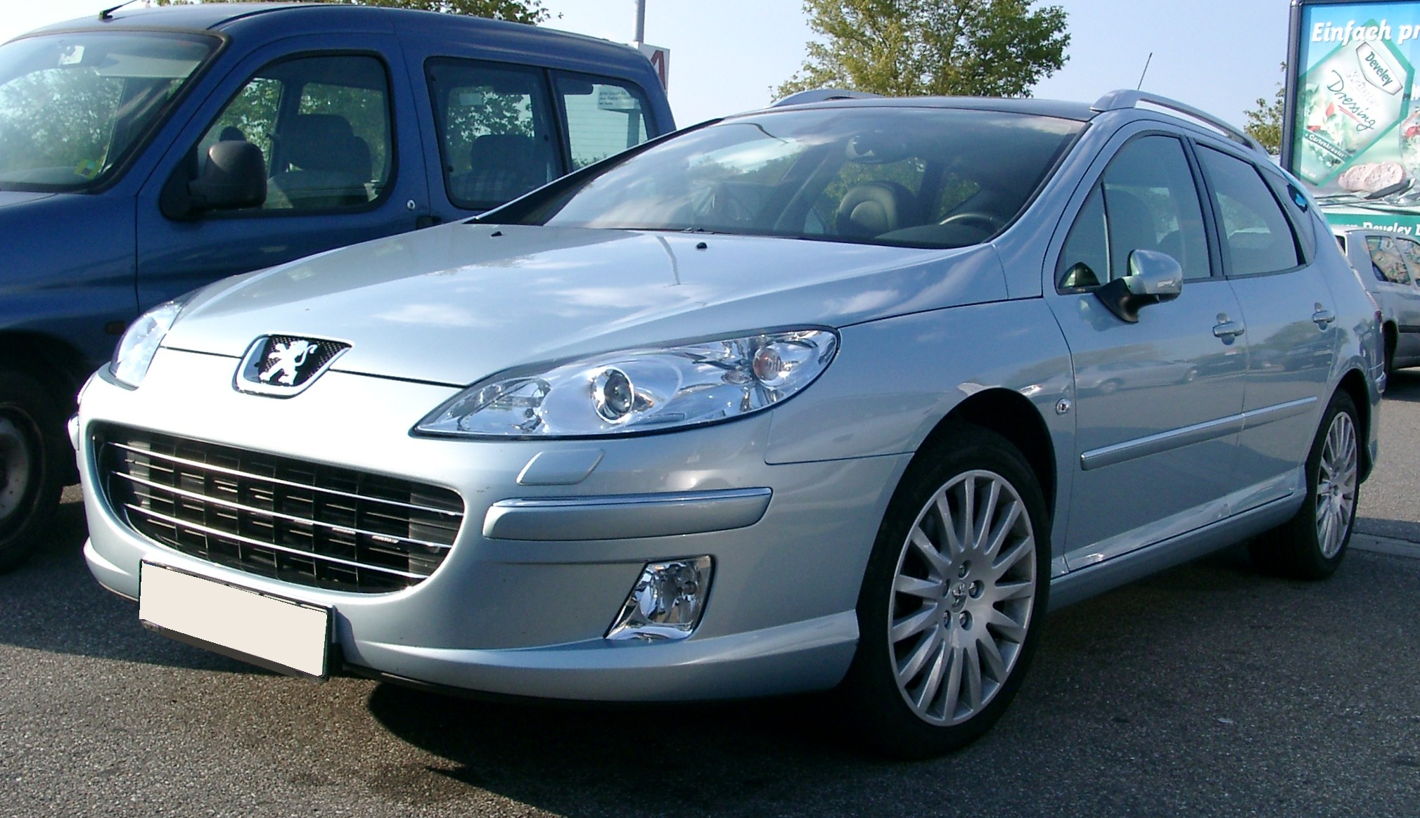 Peugeot 407 Station Wagon